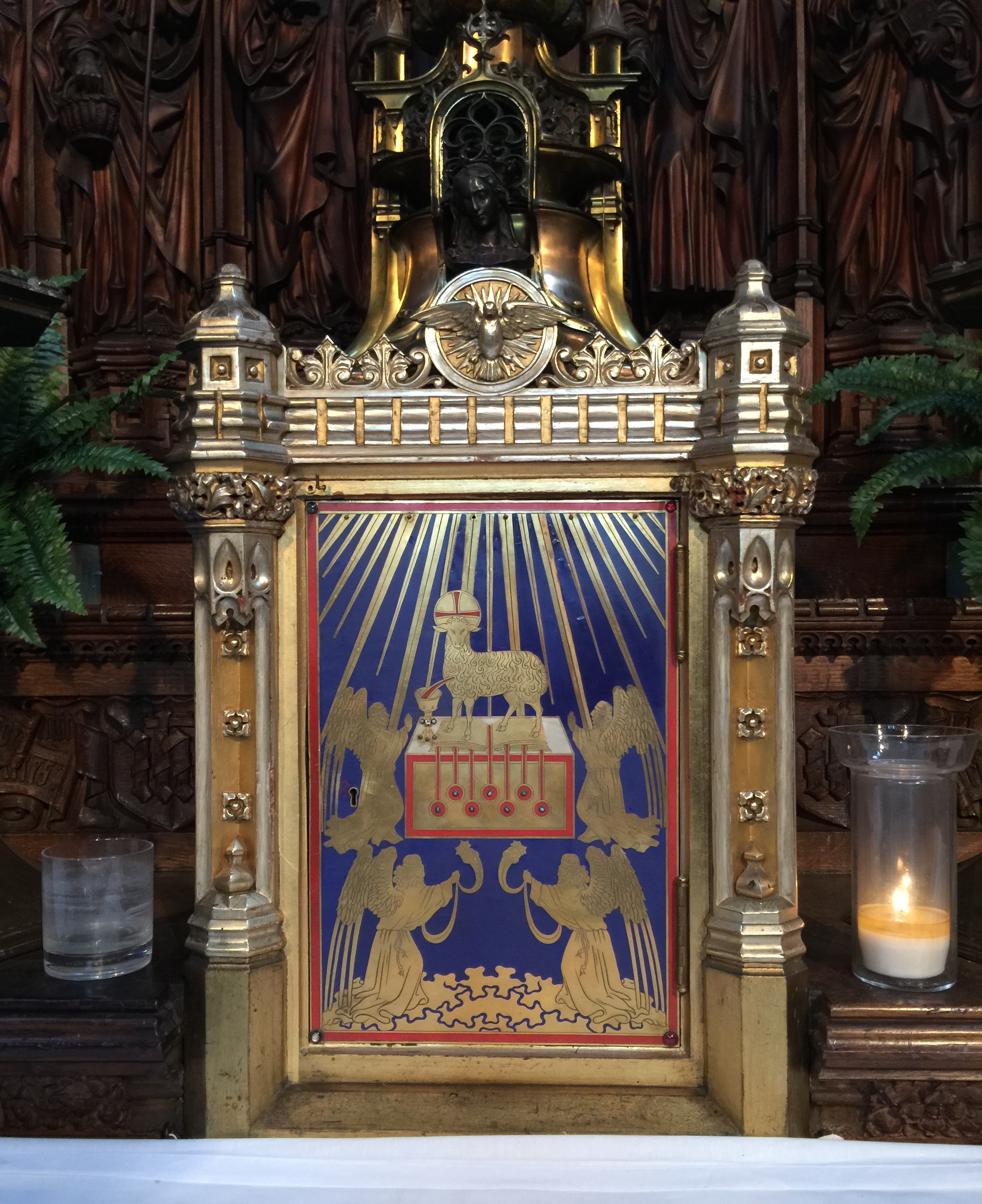 St Cuthberts High Altar Tabernacle